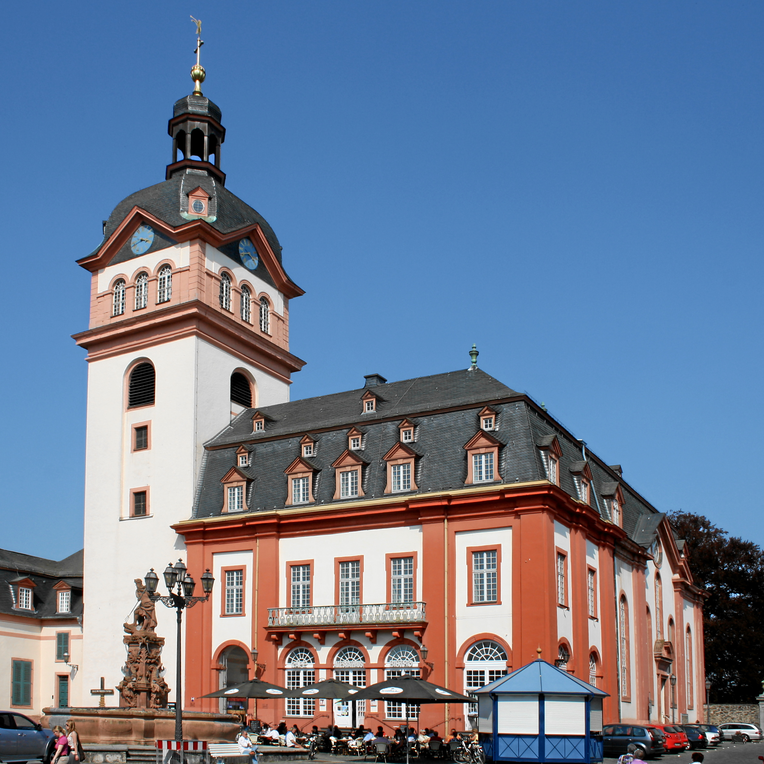 Castle church, Weilburg, Germany.